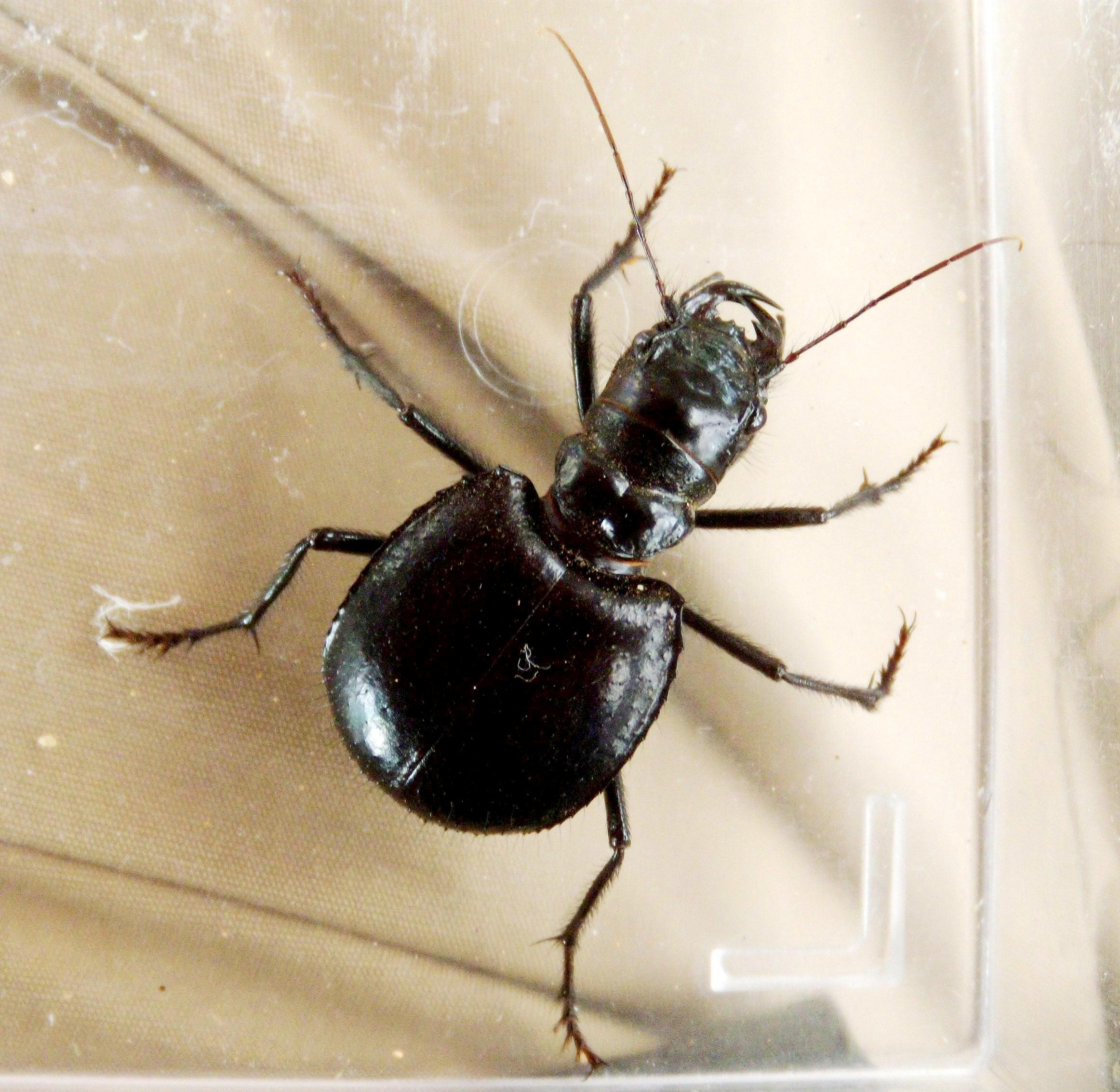 A Manticora tiger beetle near Usakos, Namibia